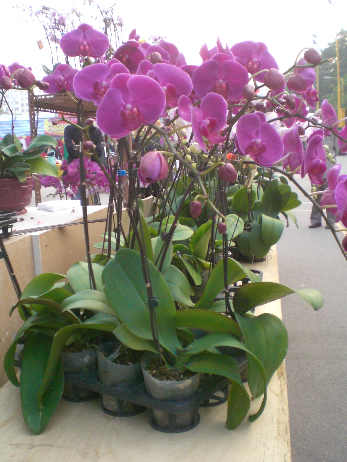 又一村 花市